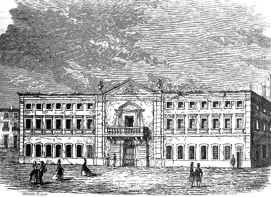 Drawing of the Inquisition Palace (Estaús Palace) in the Rossio square in Lisbon, Portugal